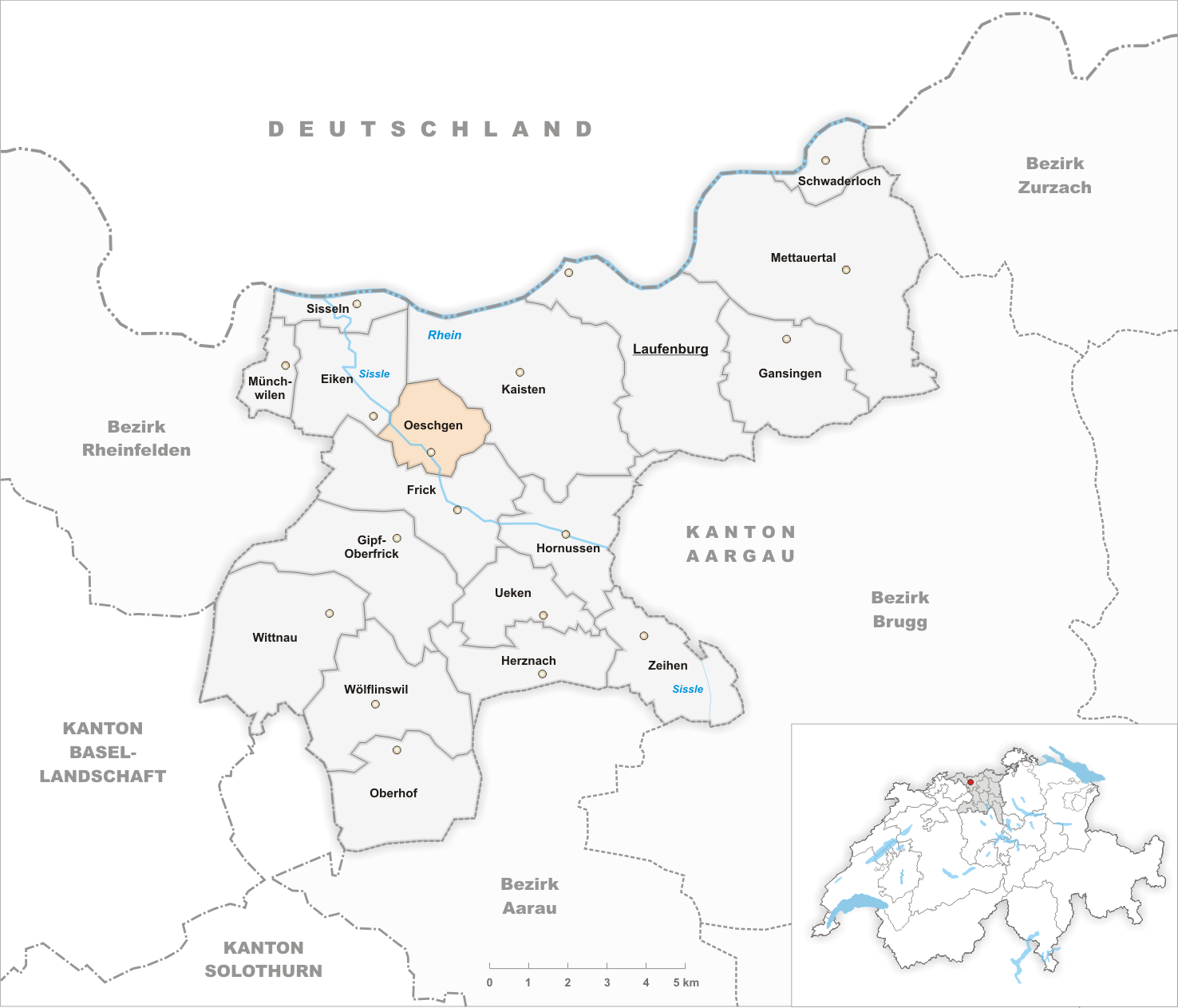 Municipality Oeschgen